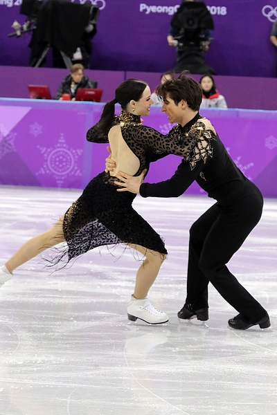 Tessa Virtue and Scott Moir at the 2018 Winter Olympic Games in PyeongChang